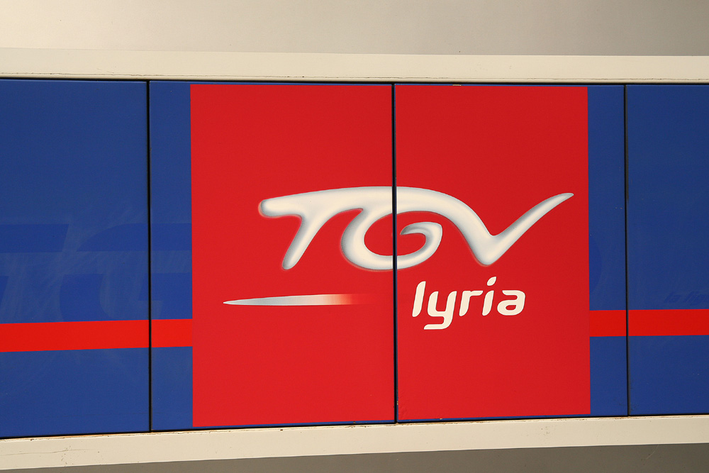 Logo of Lyria, a joint venture of SNCF and SBB, on a TGV train